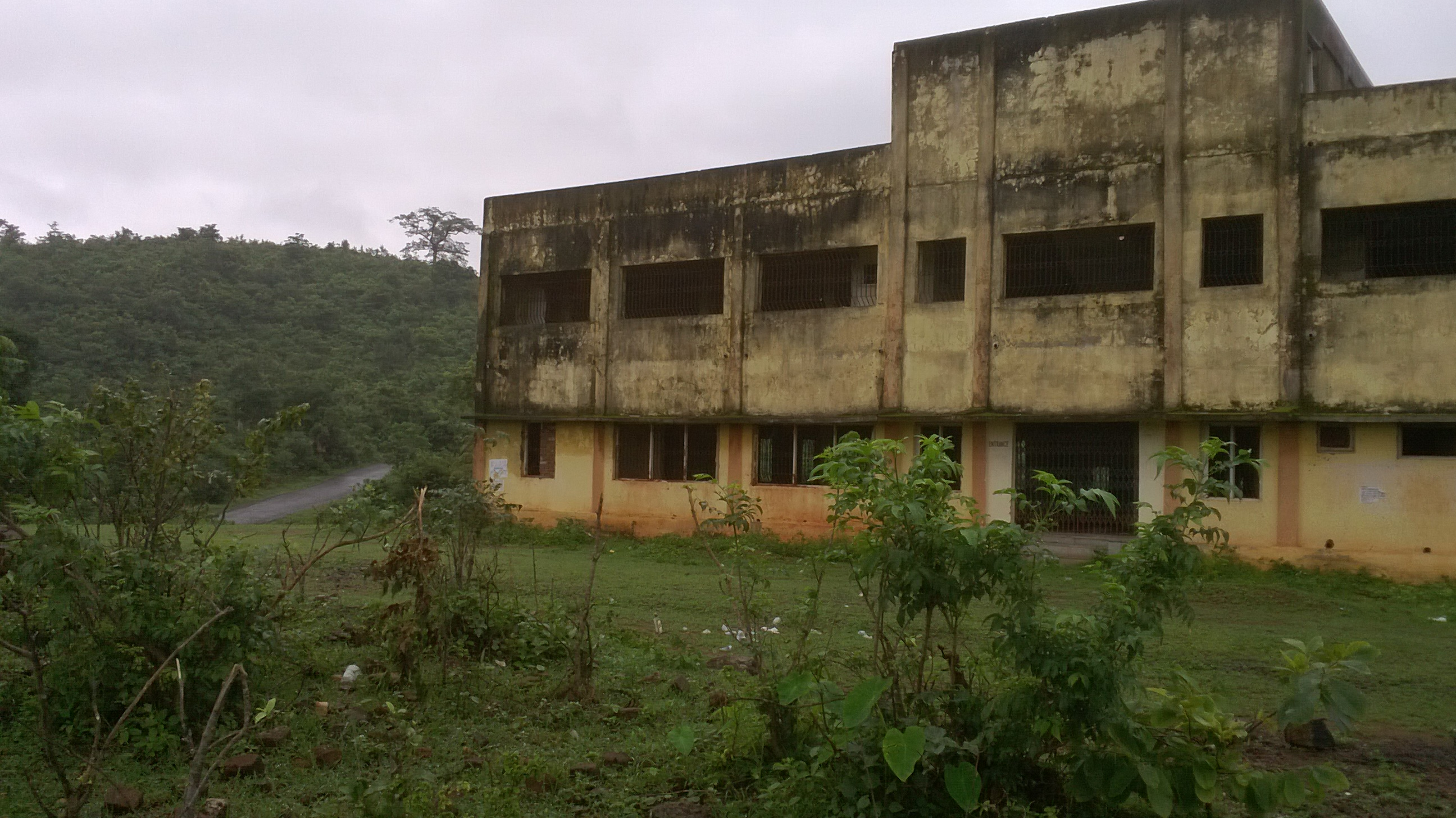 Abandoned Tourist Complex, Th. Rampur